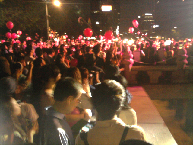 South Korean film director, who is gay, Kim Jho Kwang-soo's public wedding